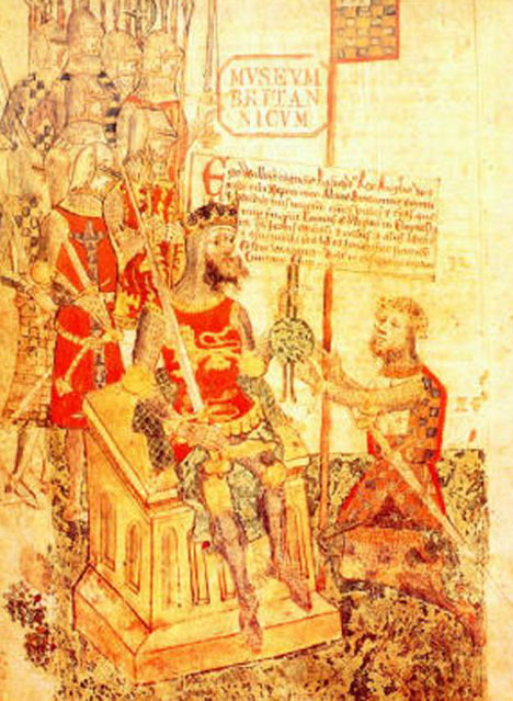 Alan the Red , Lord of Richmond (right), swear to William the Conqueror